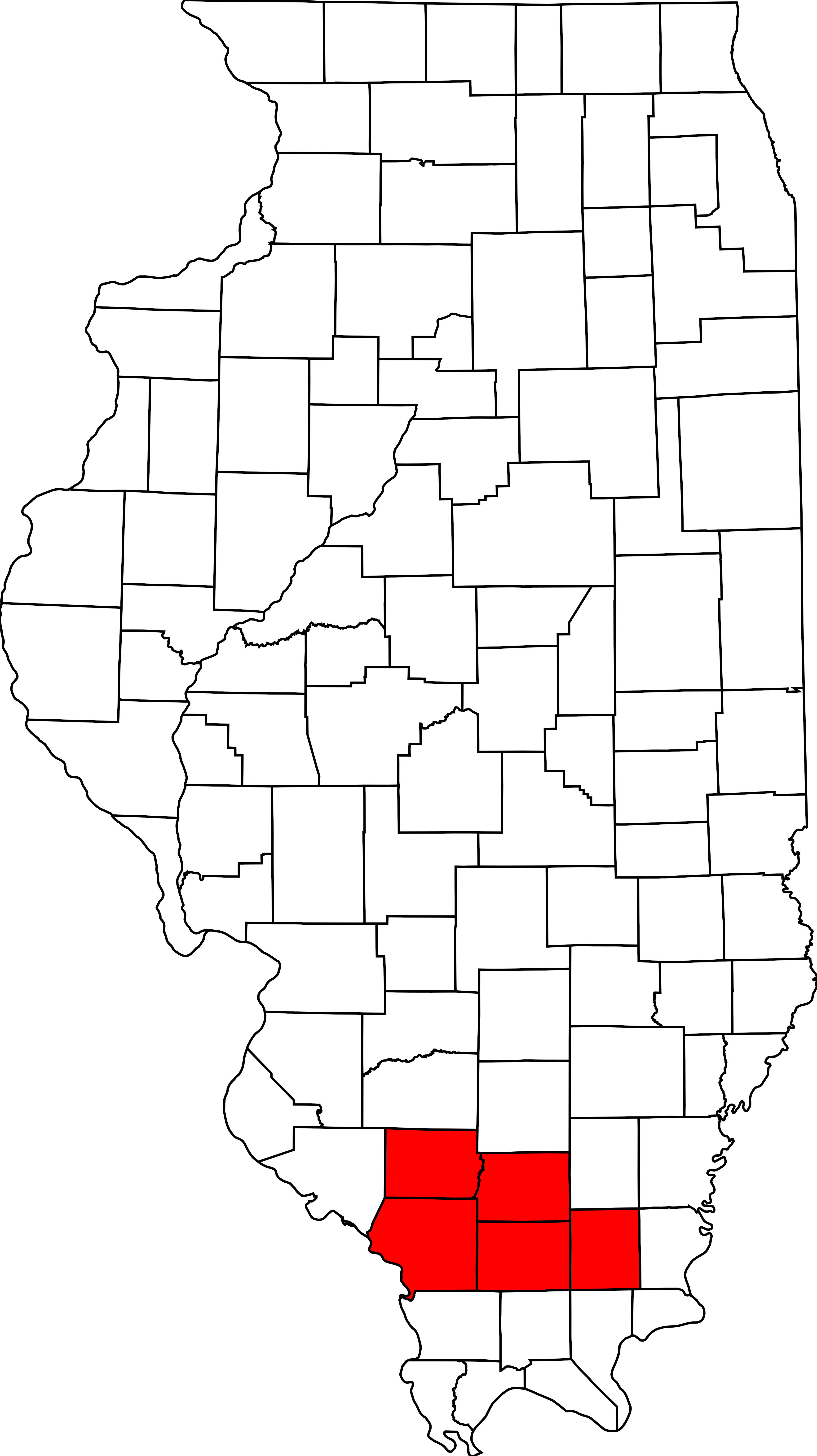 The counties colored in red (Franklin, Jackson, Perry, Saline, and Williamson) are counties that cover the Metro Lakeland community.